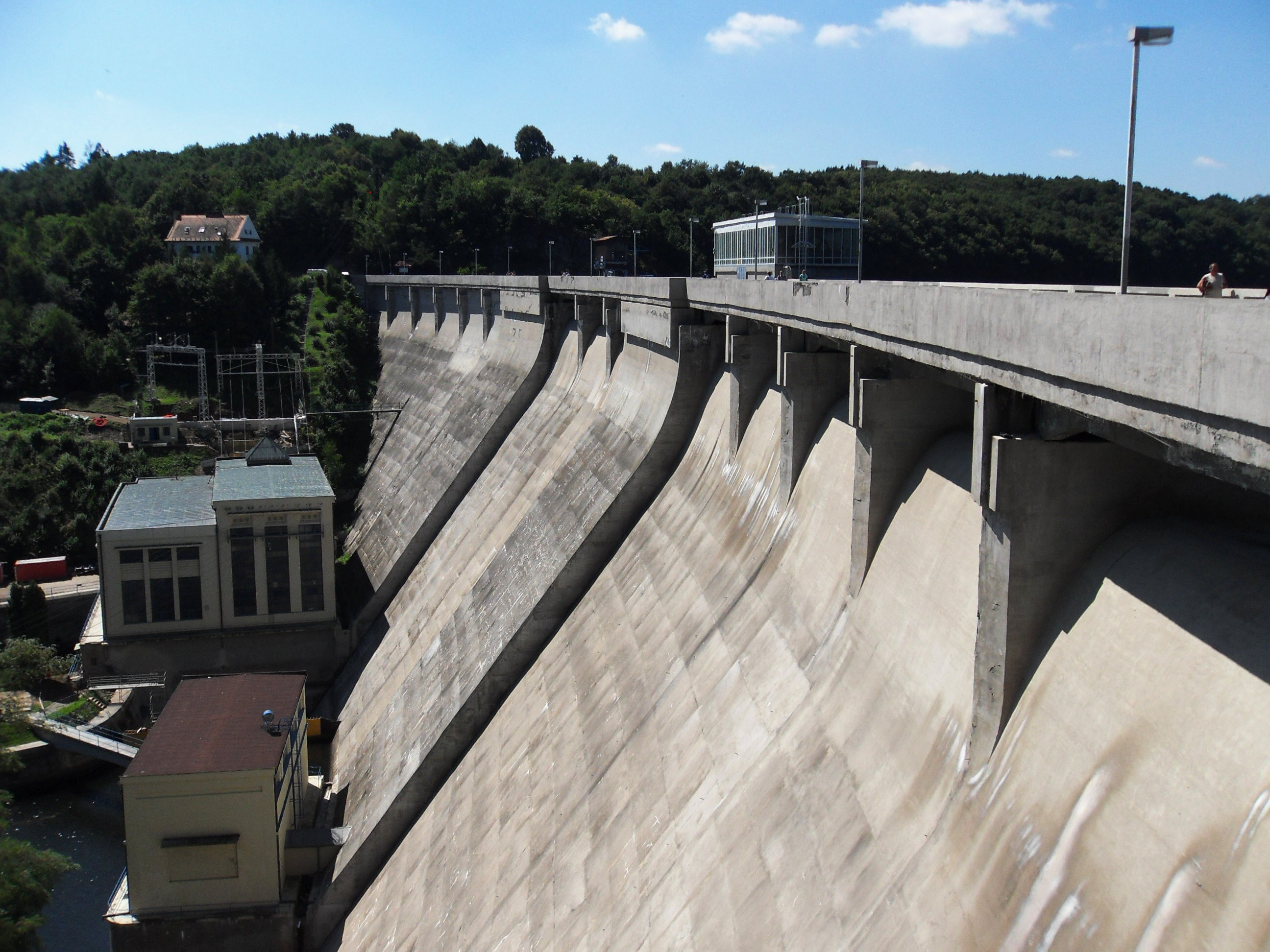 Vranov dam, Vranov nad Dyjí, Znojmo district, Czech Republic